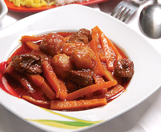 Khoresh Havij